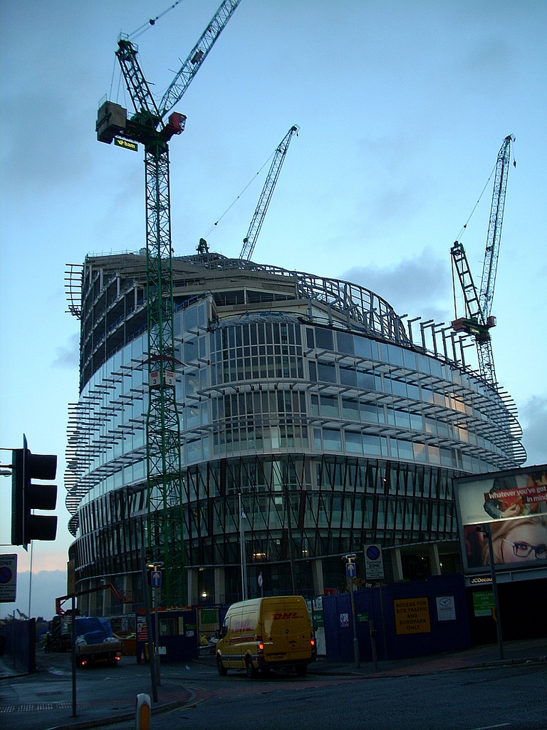 New Co-op HQ